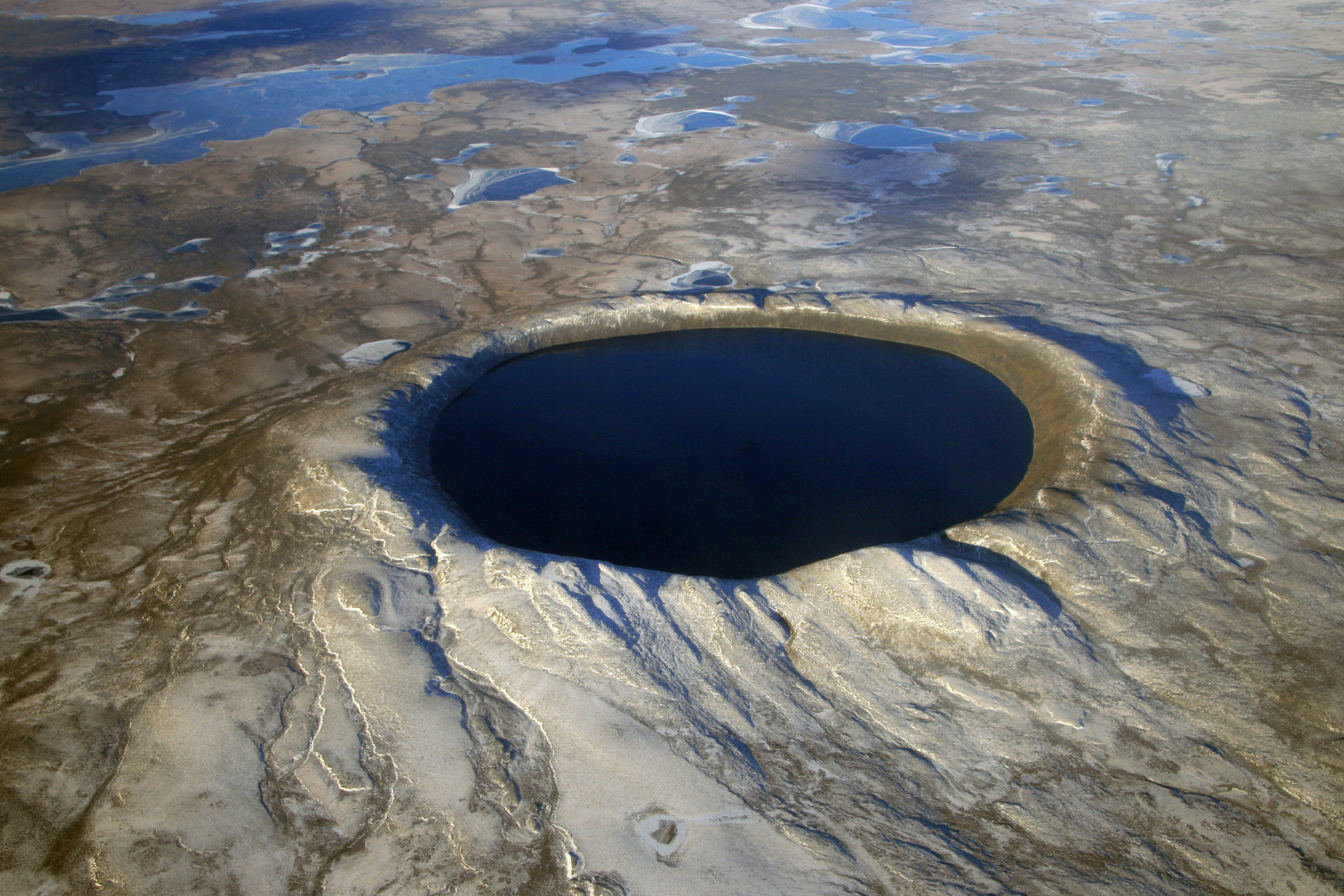 Pingualuit crater in Nunavik, northern Quebec, Canada, looking west. It contains a lake named Lake Pingualuk.